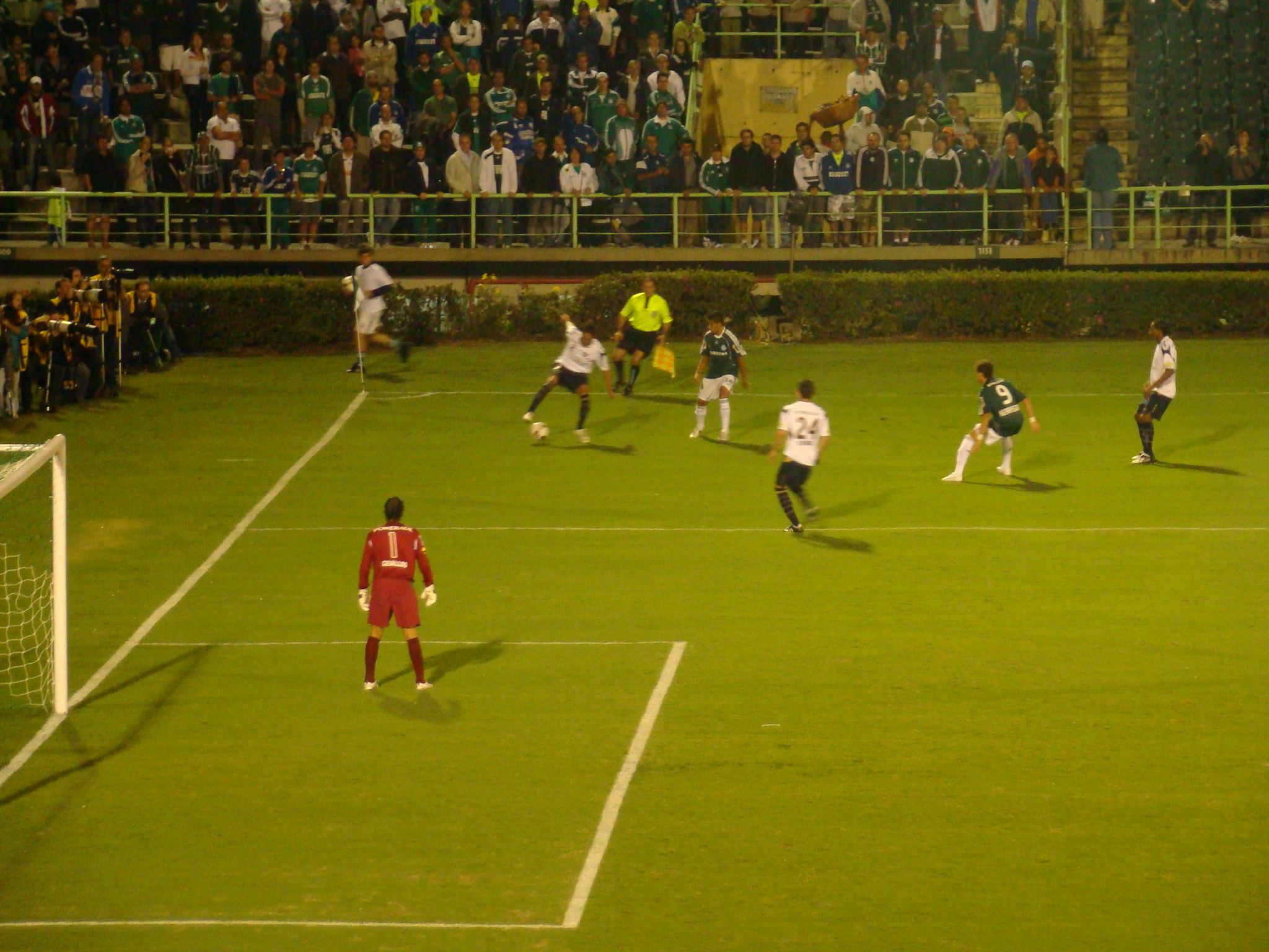 Palmeiras playing against Liga Deportiva Universitaria on 2009 Taça Libertadores.